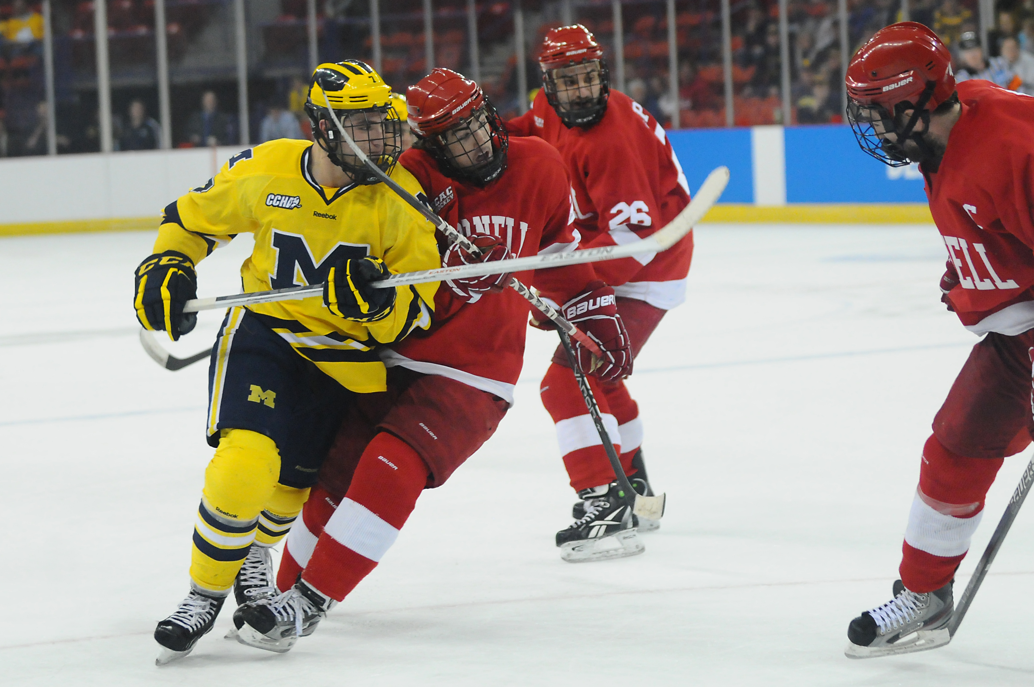 Phil Di Giuseppe #7 - University of Michigan (Adam Glanzman/Daily)